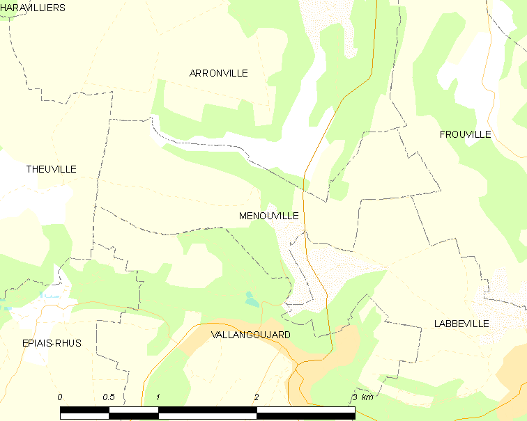 Map of French municipality Menouville